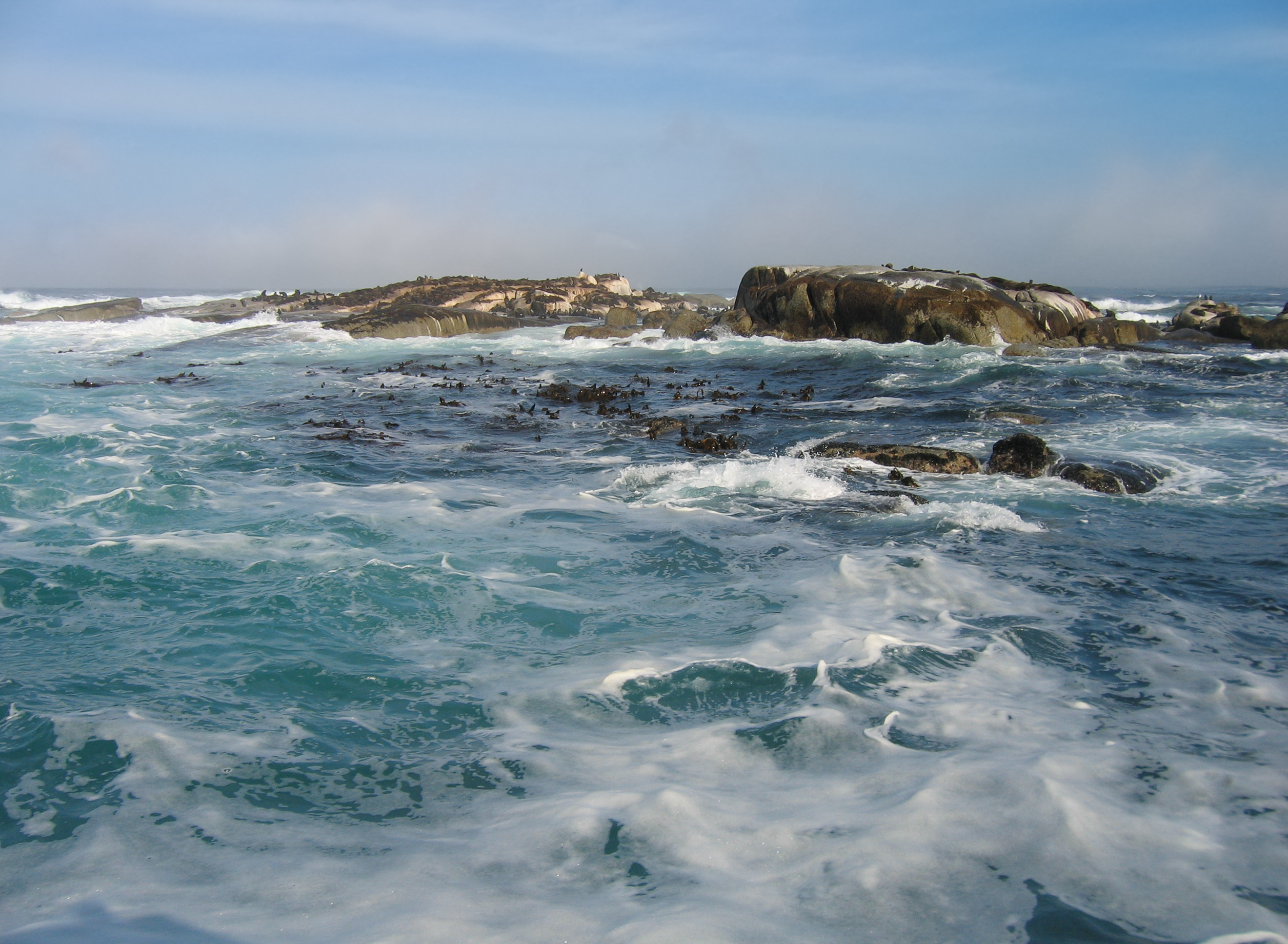 Fur seals on Duiker Island, Hout Bay, Cape Town, South Africa